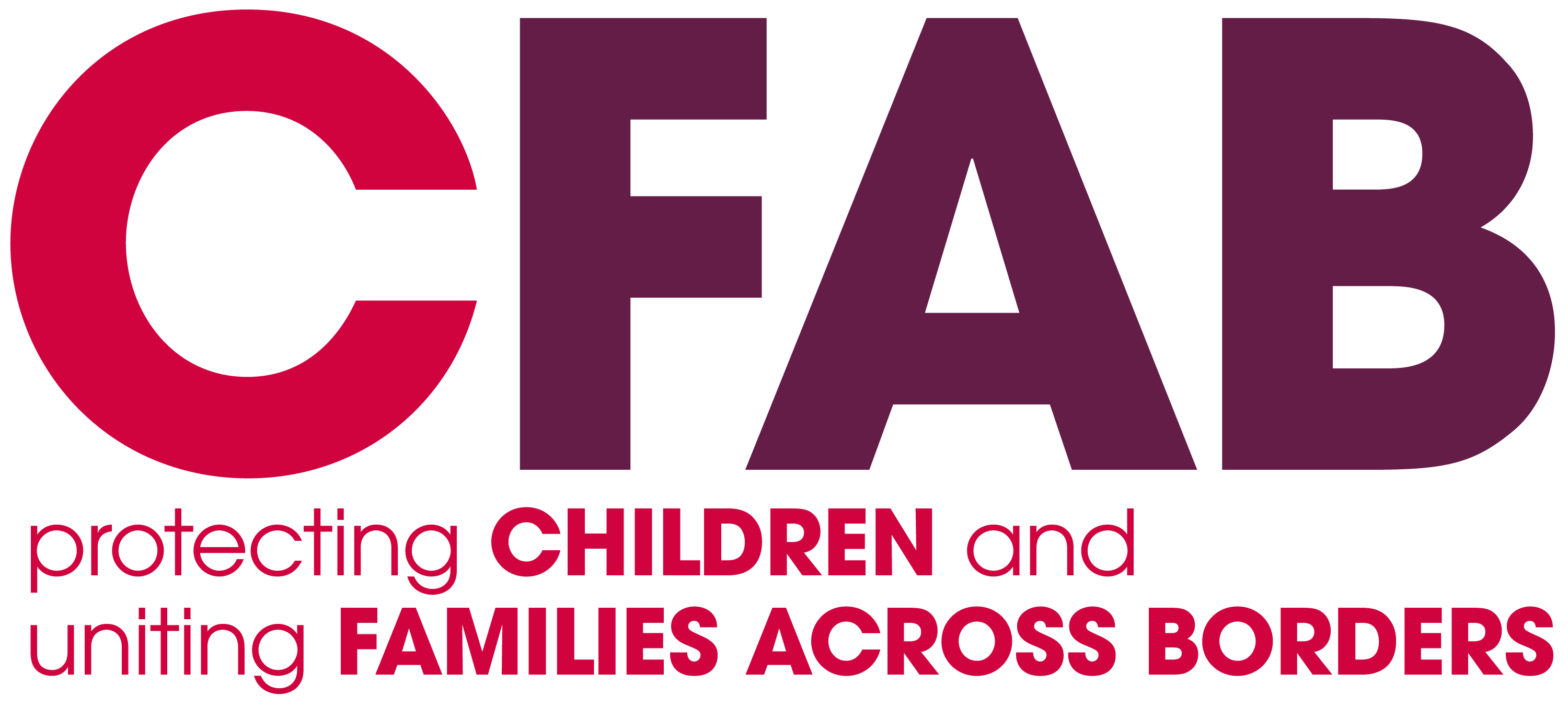 CFAB Original Logo